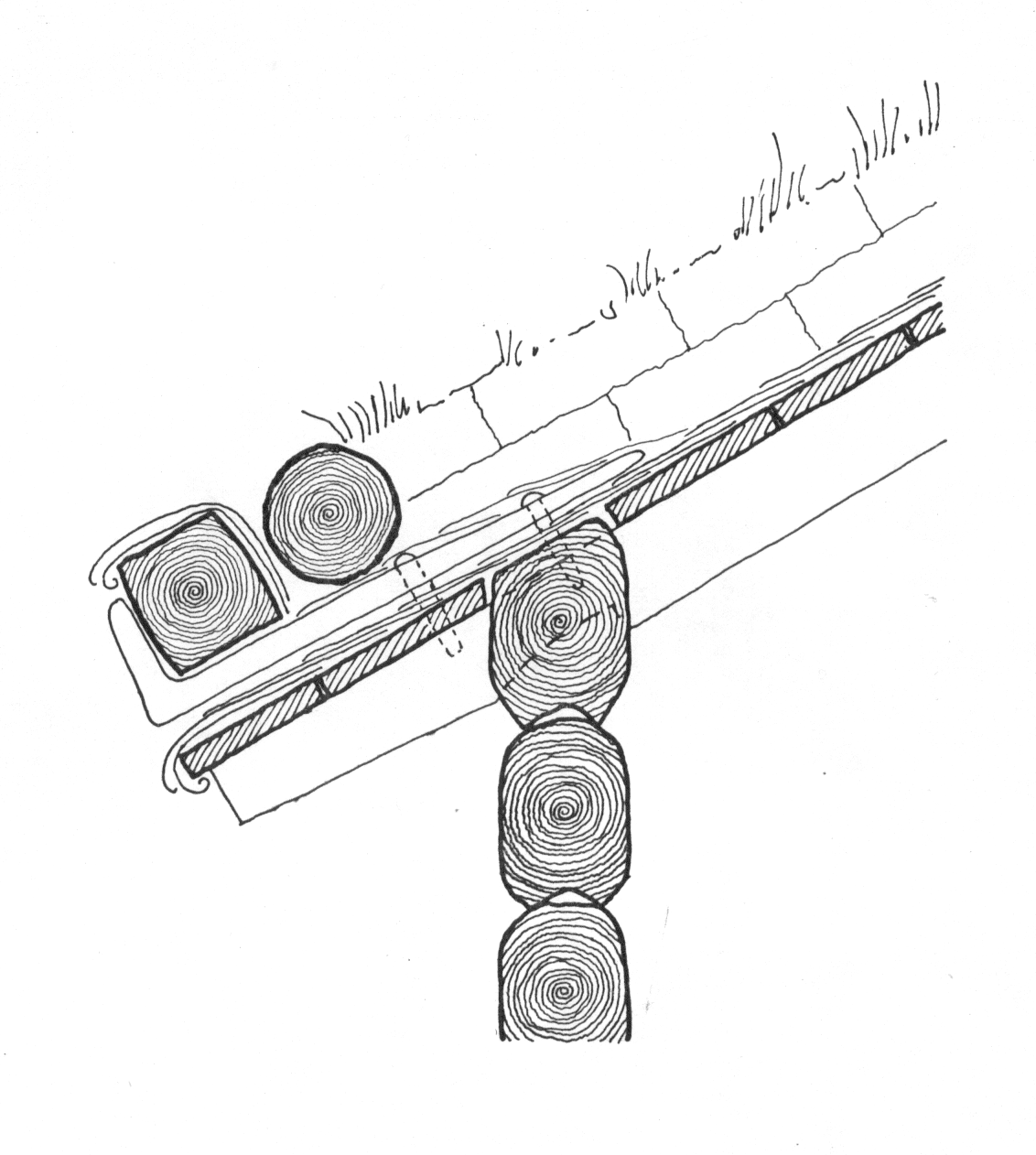 Section of traditional sod roof at eaves of a log house (3)